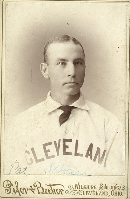 Baseball card of Patsy Tebeau